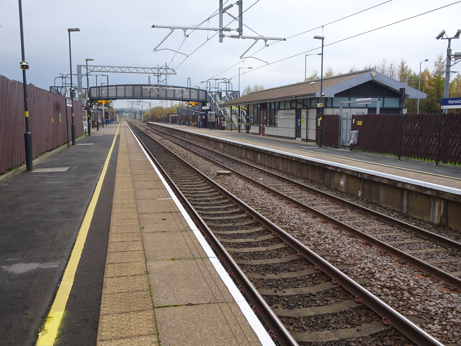 Horwich Parkway railway station, LancashireOpened in 1999 by British Rail on the Bolton-Preston line. View north west towards Blackrod and Preston, a few months after the line was electrified. For a view of the station some 8 years earlier, see SD6409 : Horwich Parkway railway station, Lancashire, 2010. The original Horwich station was on the end of a short branch line to the north east of here. It closed in 1966.